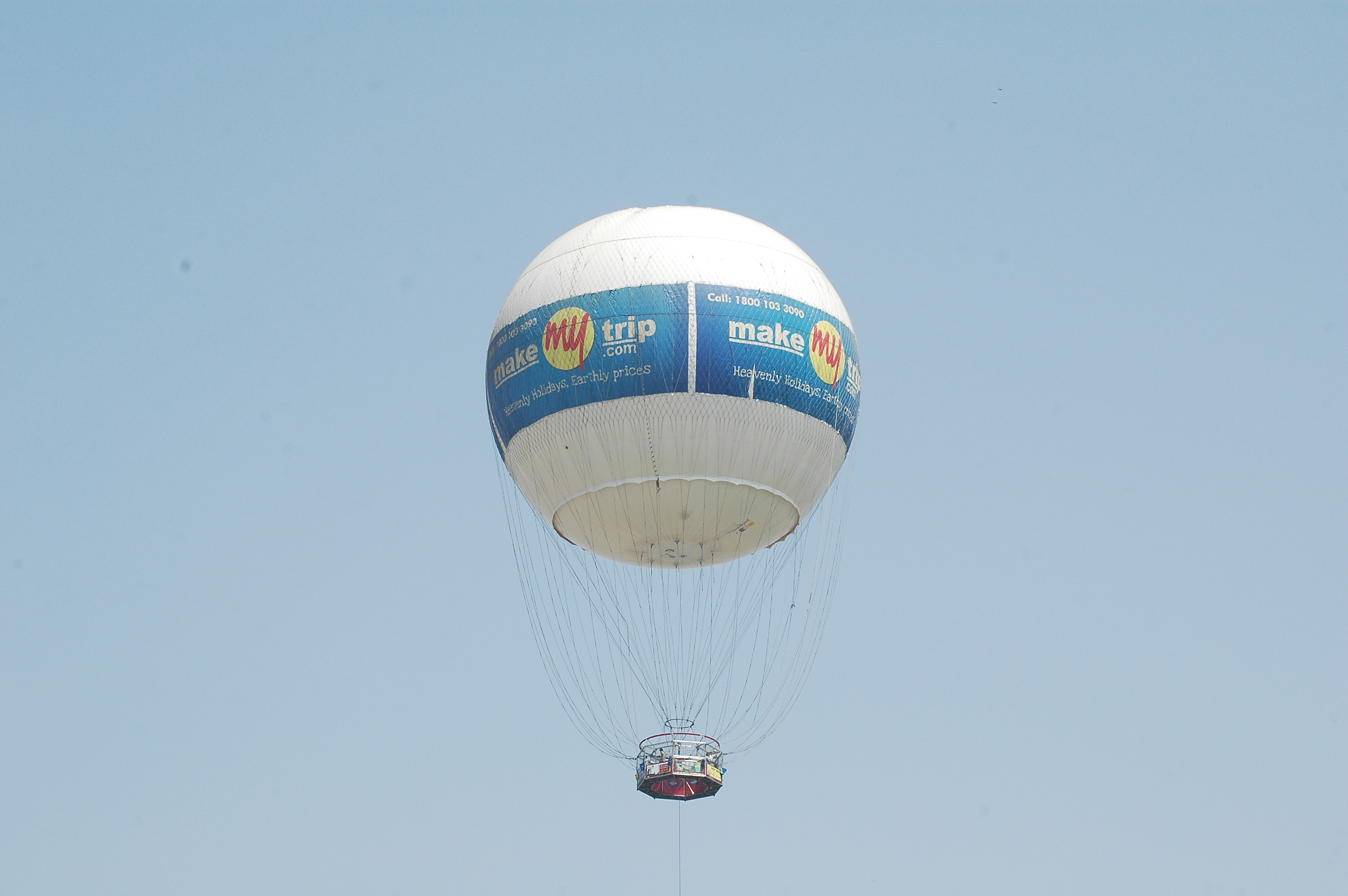 Lindstrand "HiFlyer" helium balloon started full operation in september 2010 at Kankaria lakefront, Ahmedabad, India.